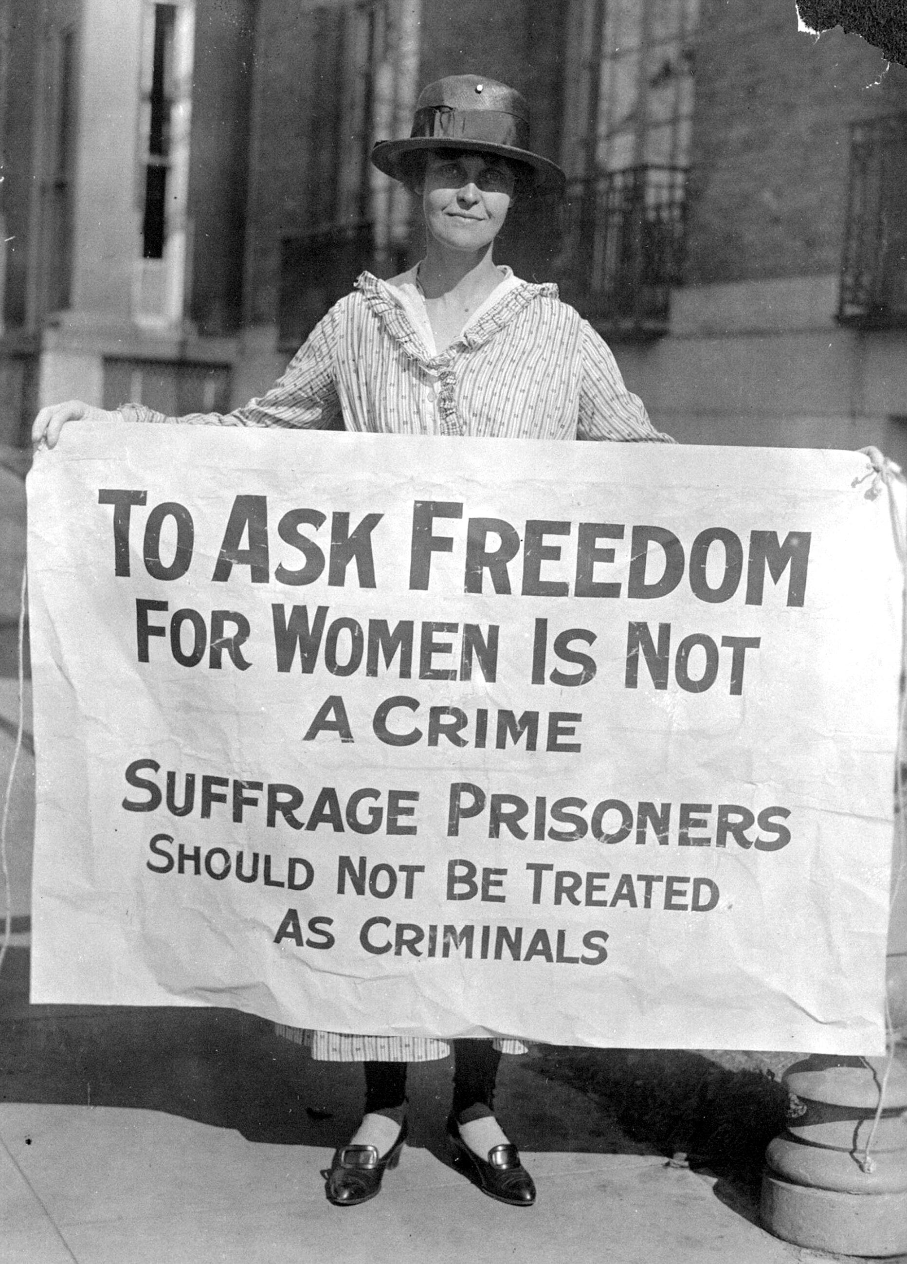 Mary Winsor (Pennsylvania), holding suffrage prisoners banner